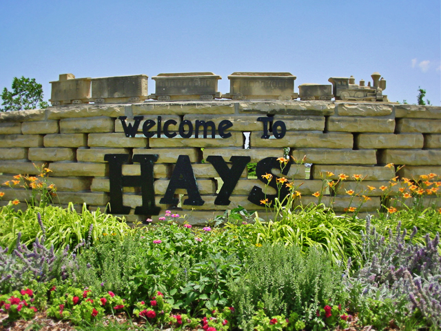 Stone work signs that greets visitors coming to the City of Hays, KS. Artwork by Pete Felten